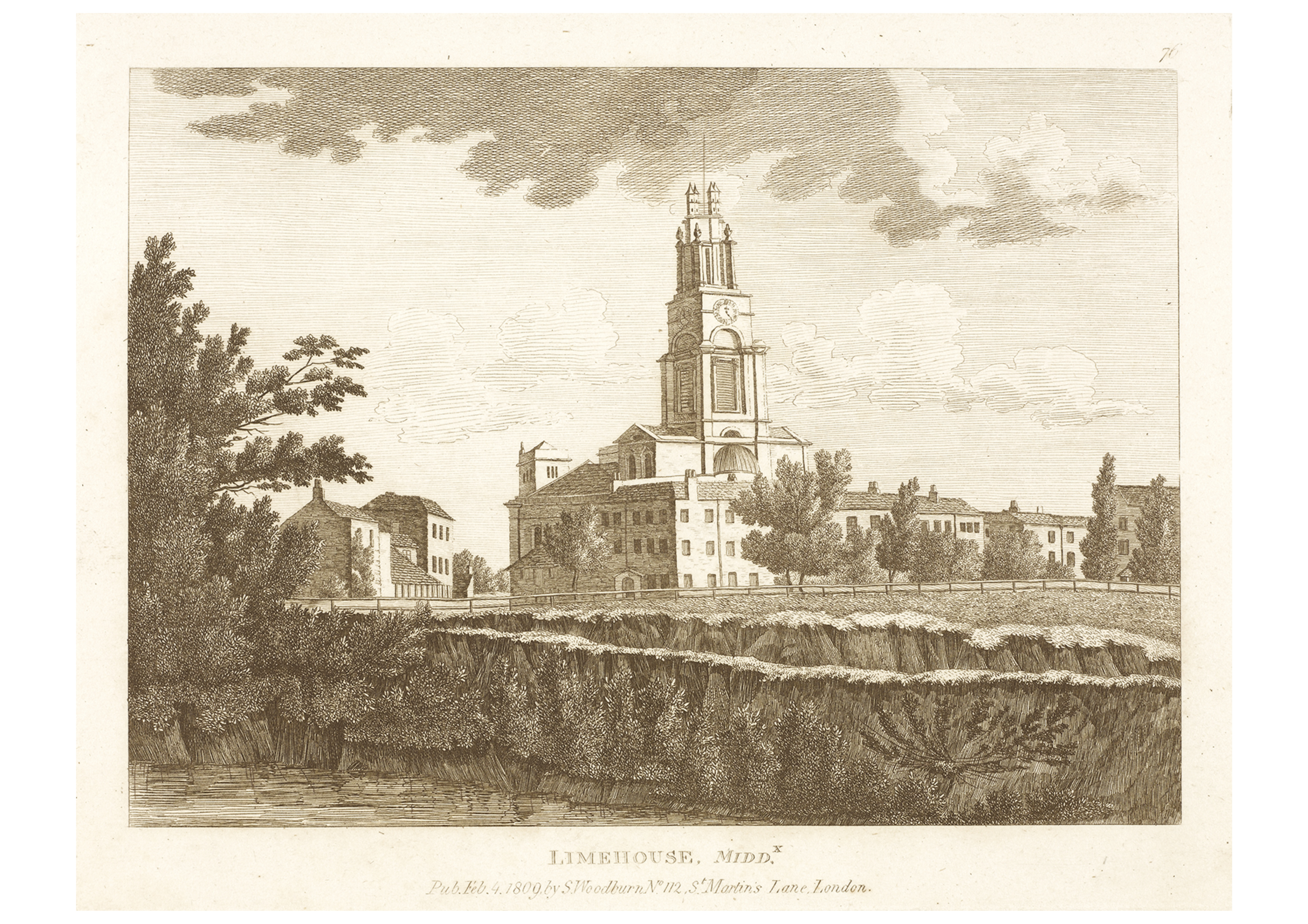 An 1809 print showing part of Limehouse during the Napoleonic wars. In the background is Anne's Church and the newly opened Commercial Road. The area is sill mainly rural. In the foreground is the Limehouse Cut; this print seems to show it being widened. To the right are houses in Church Lane (now Newell Street). To the left is the Britannia Tavern, which gave its name to Britannia Bridge.